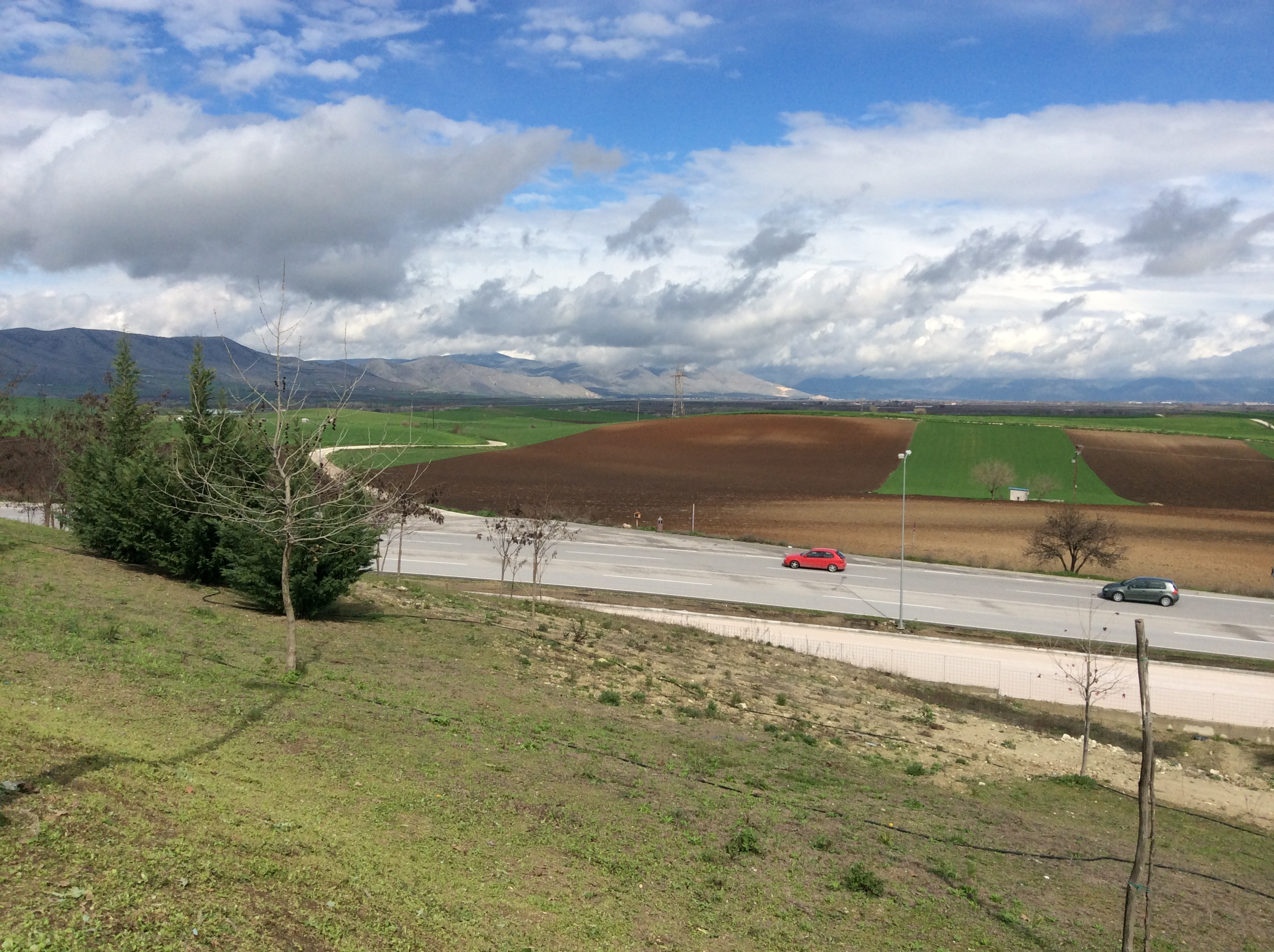 Thessaly, near Larissa